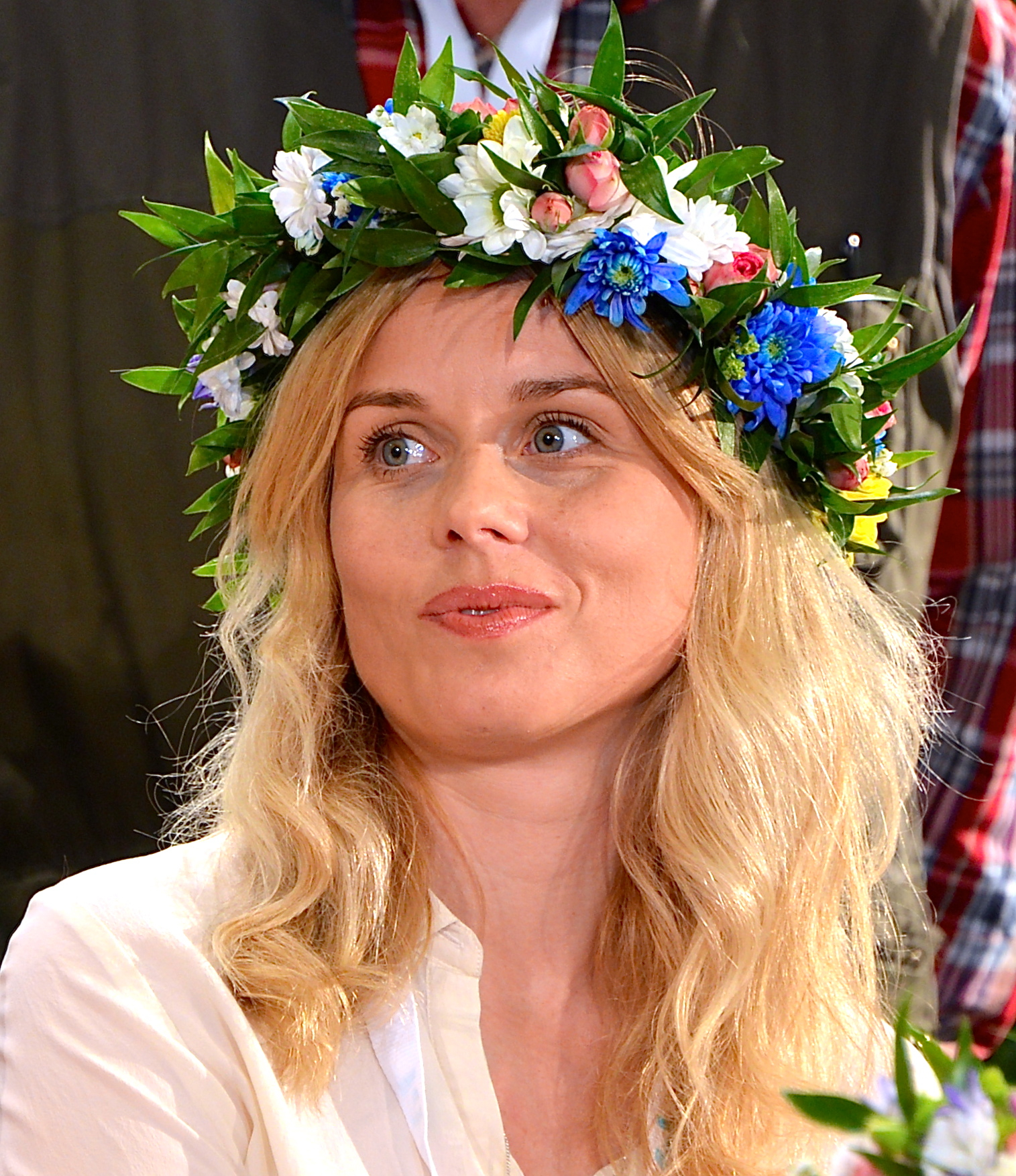 Helena af Sandeberg during the presentation of this year's Summer hosts in Sveriges Radio (Sweden's national publicly funded radio broadcaster) on 29 May 2013.